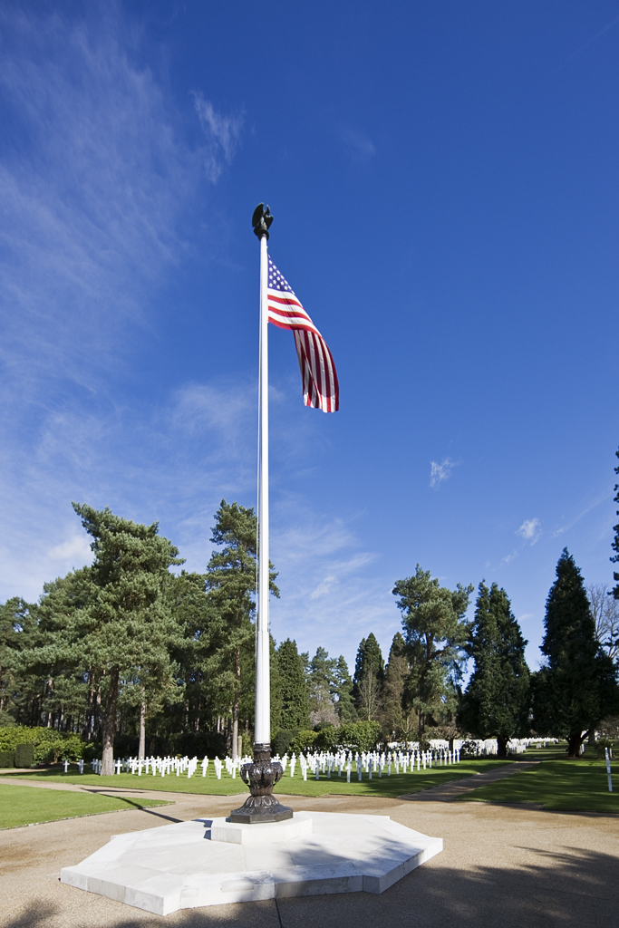 ABMC Brookwood Military Cemetery - central flag pole around which 4 grave plots arranged